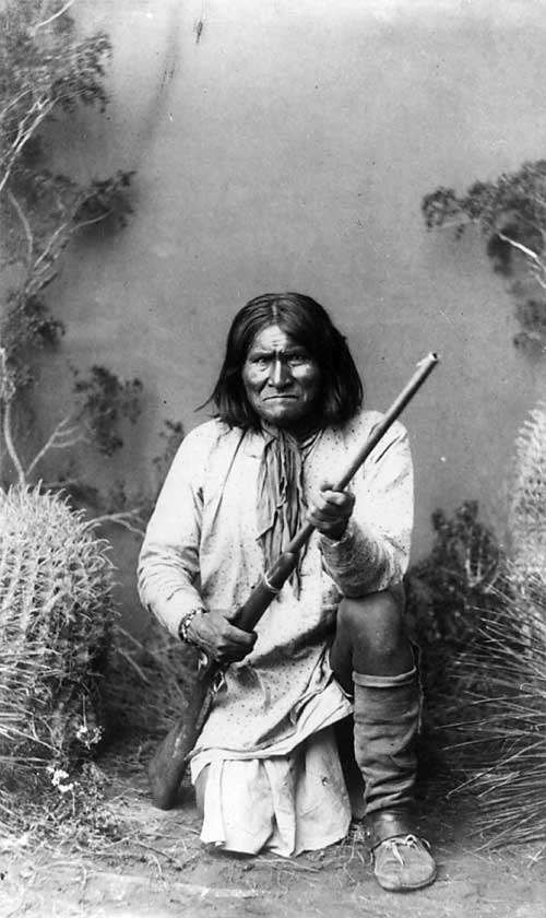 Geronimo (Goyathlay, 1820–1909), a Chiricahua Apache; full-length, kneeling with rifle , 1887